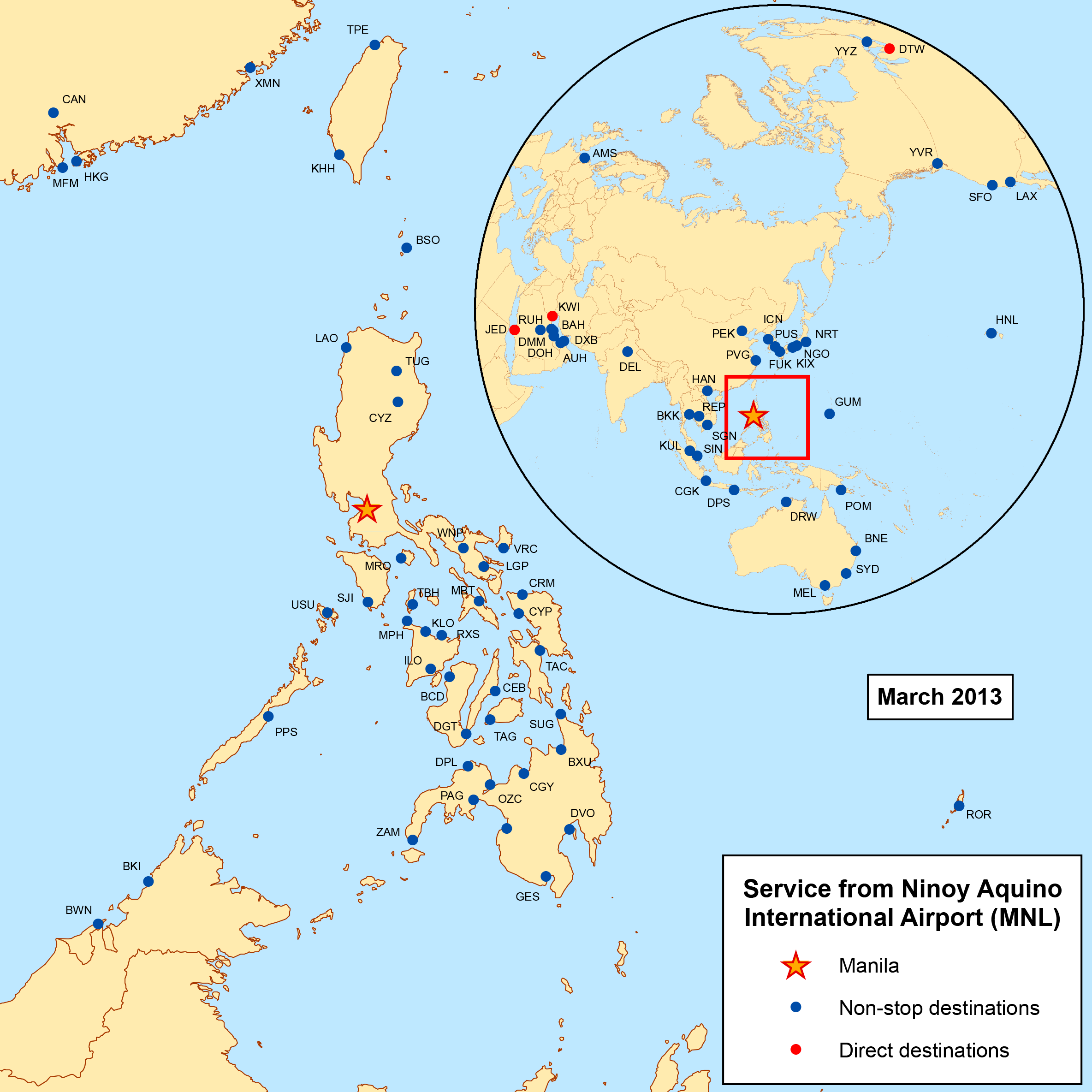 This is a route map for Ninoy Aquino International Airport as of January 2008. Map is an Azimuthal equidistant projection centered on the airport so straight lines from Manila are along great circle routes.